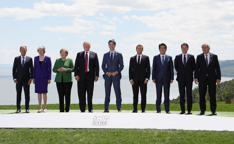 Participants of the 44th G7 summit in La Malbaie, 8 June 2018. From left to right: Donald Tusk (EU), Theresa May (UK), Angela Merkel (Germany), Donald Trump (US), Justin Trudeau (Canada), Emmanuel Macron (France), Shinzō Abe (Japan), Giuseppe Conte (Italy), Jean-Claude Juncker (EU)